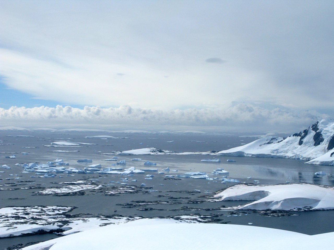 Wilhelm Archipelago, Biscoe Islands, Antarctic Peninsula